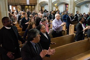 Metropolitan New York Synod Service for Justice and Reconciliation